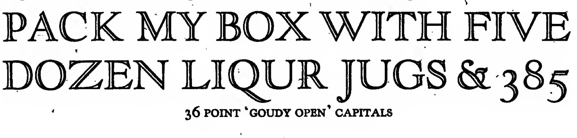 Goudy Open, a design of 1918 by Frederic Goudy. Goudy's aim was to 'redeem' the geometric Didone capital letter forms, by cutting a line through the centre of the thick strokes in order to achieve a lighter page.